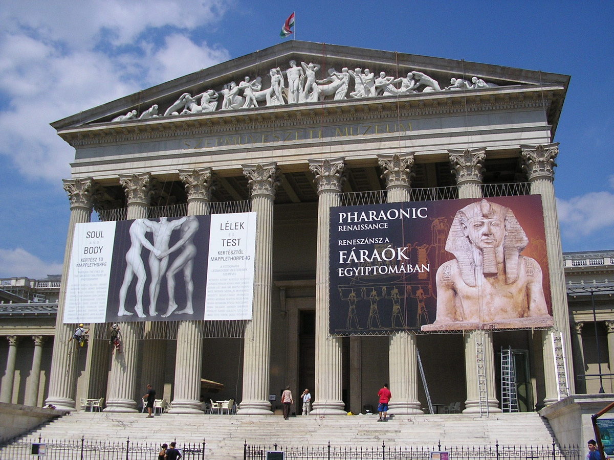 Budapest Museum of Fine Arts